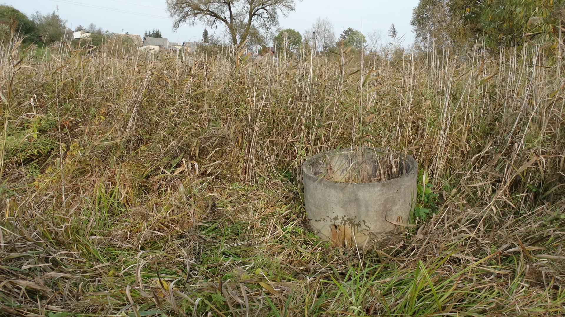 Balbieriškis spring, Prienai District, Lithuania